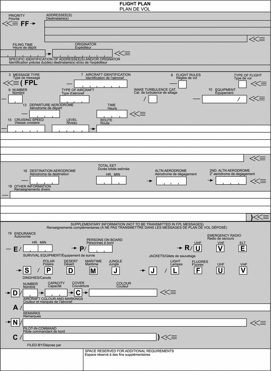 flight plan